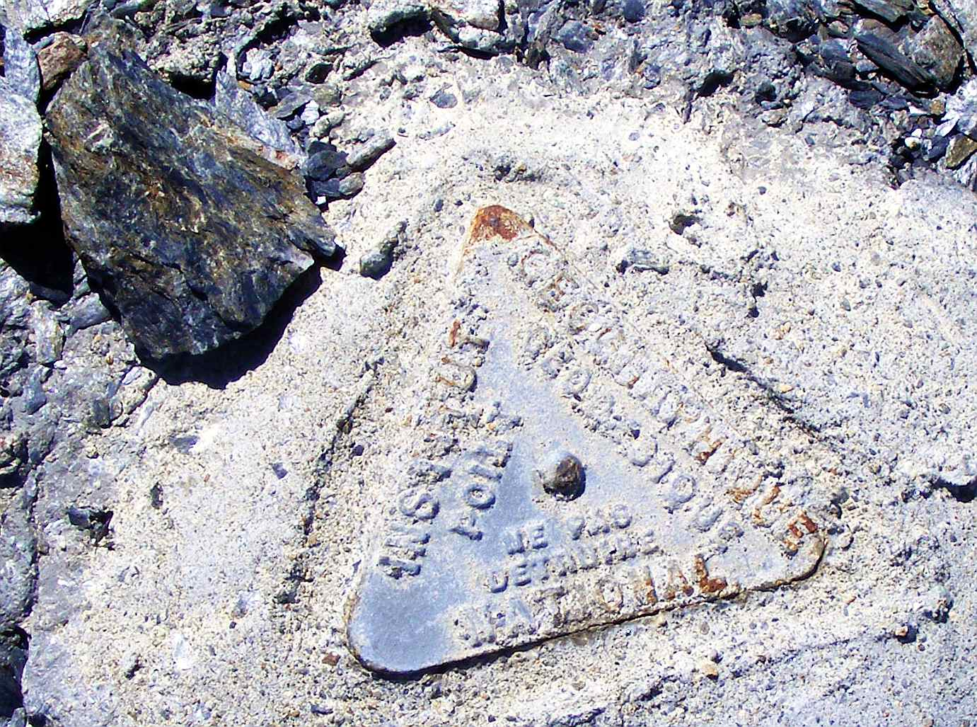 Punta Gardiola (Gardiora), 3.140 m; Cottian Alps - french-italian border: geodetic poit IGN on its summit